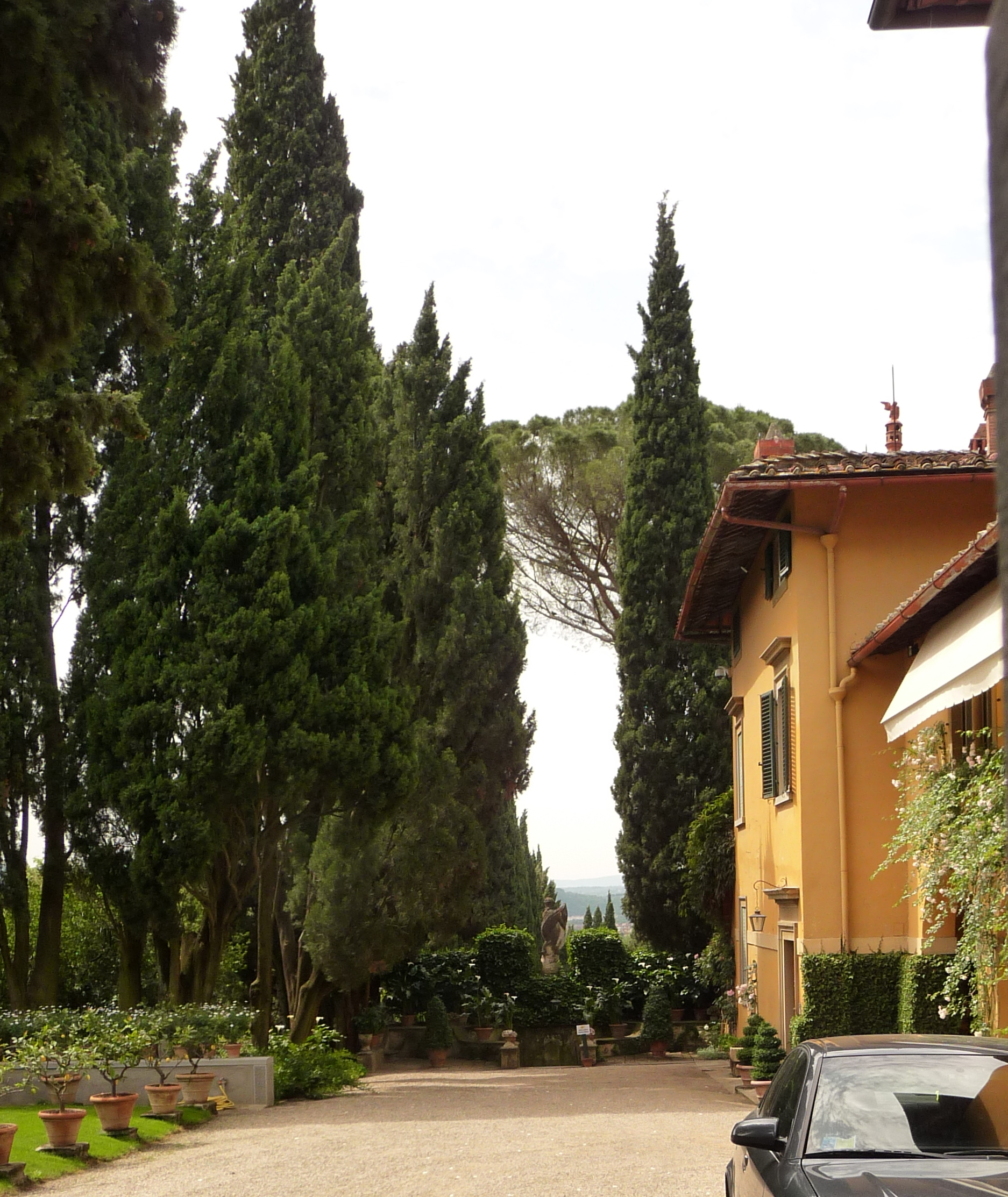 Villa I Tatti in Fiesole; Insitute of the Harvard University